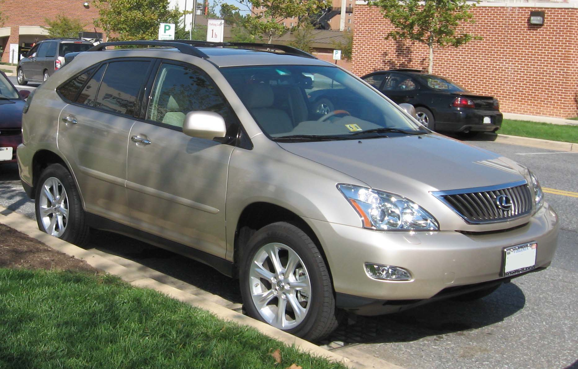 2008 Lexus RX350 photographed in College Park, Maryland, USA.